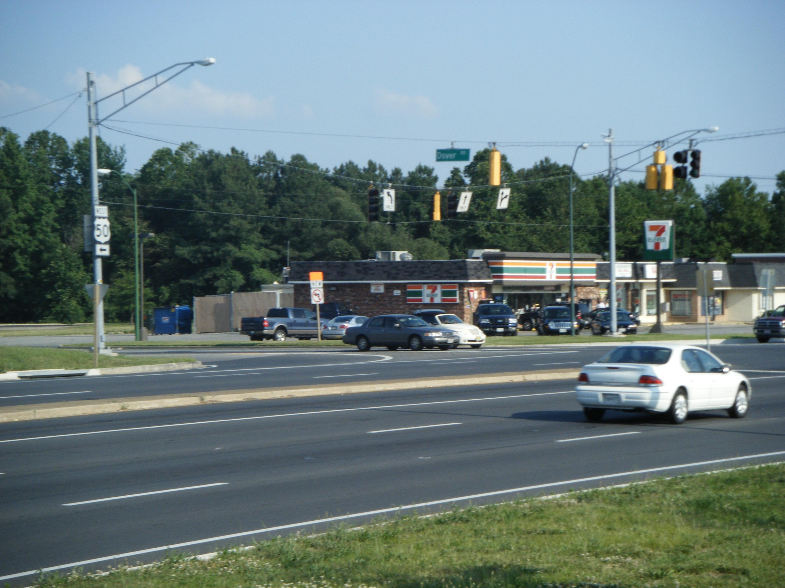 Eastbound U.S. Route 50 at the intersection with Maryland Route 331 in Easton, Maryland